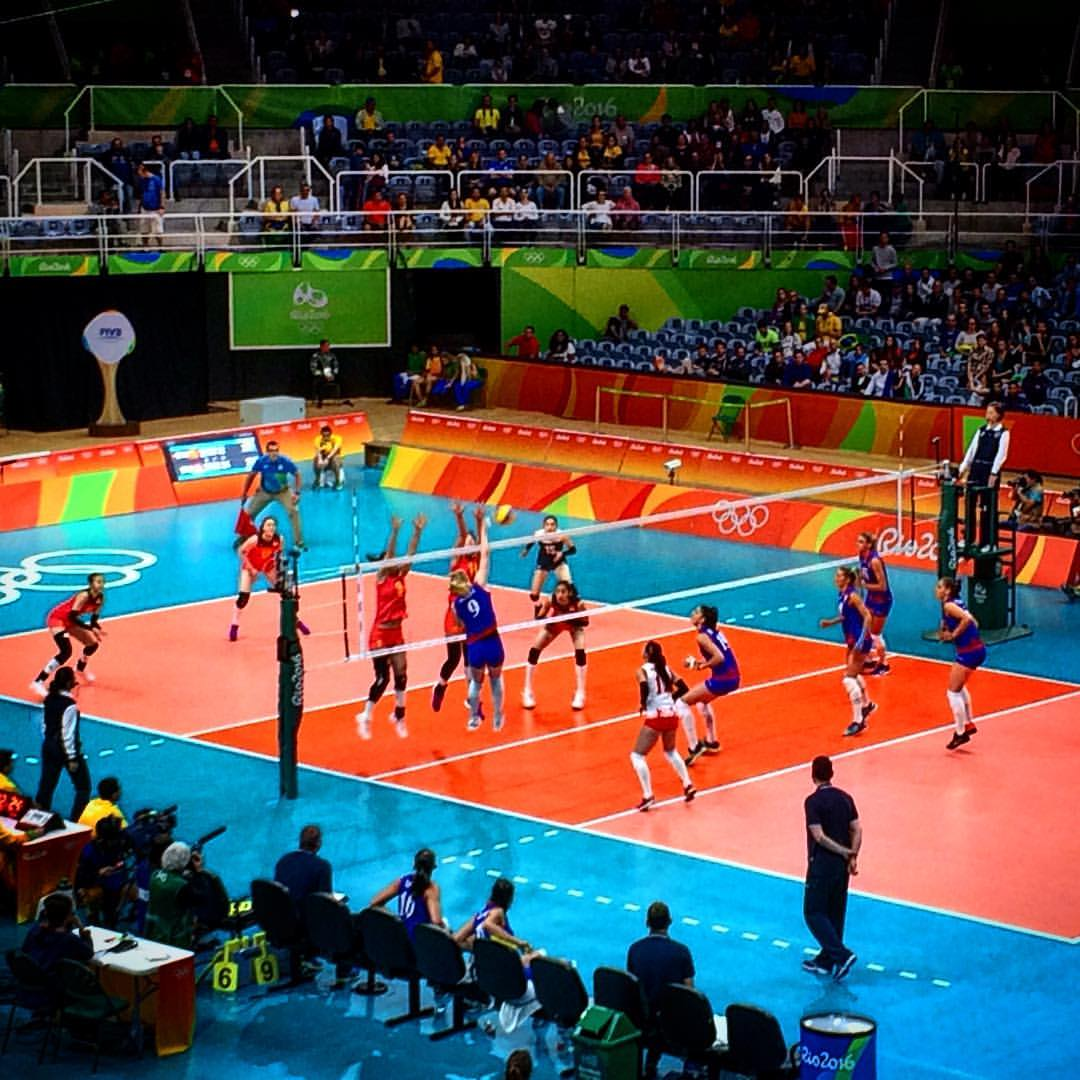 China vs Serbia... Starting my Olympic Experience with these awesome game! And the match point by Brankica Mihajlovic!